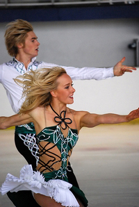 Pernelle and Lloyd, French Masters in Orleans in 2009